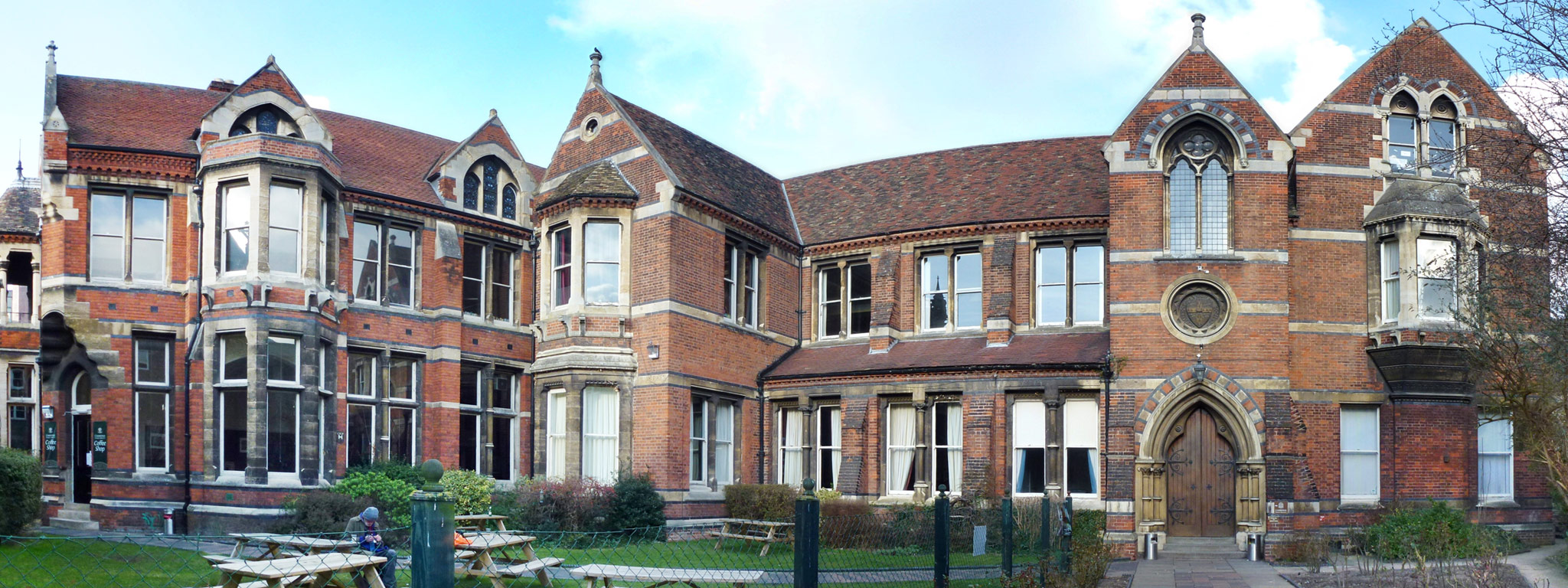 Stitched panorama of the Cambridge Union Society building.